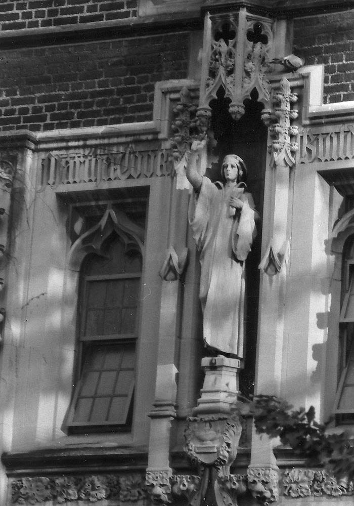 Photo of architectural sculpture of "Portia" (1915) Martha Cook Building, University of Michigan, Ann Arbor, Michigan. From Annotated Inventory of Outdoor Sculpture in Washtenaw County by Einar Einarsson Kvaran 1989